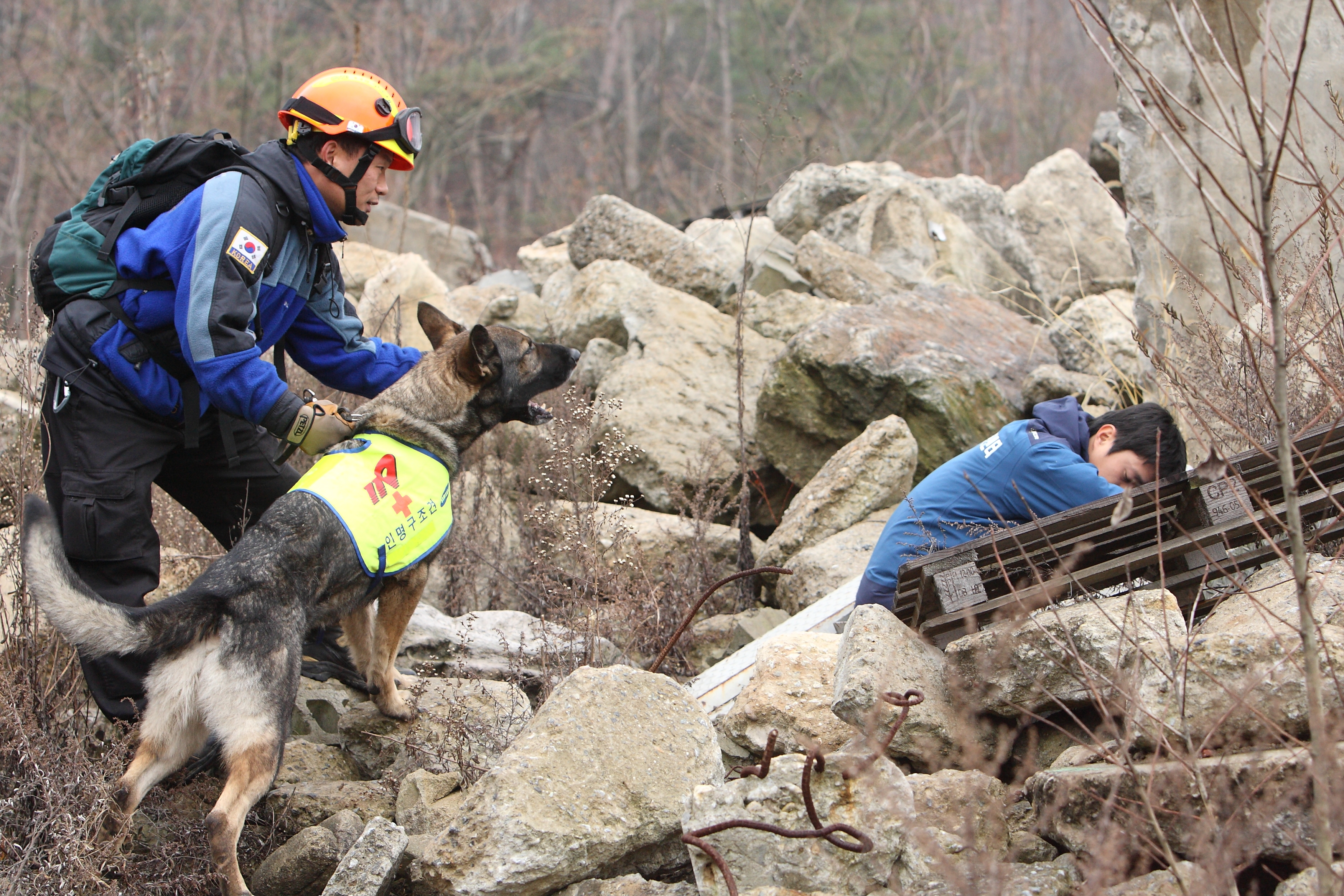 Canine Rescue dogs